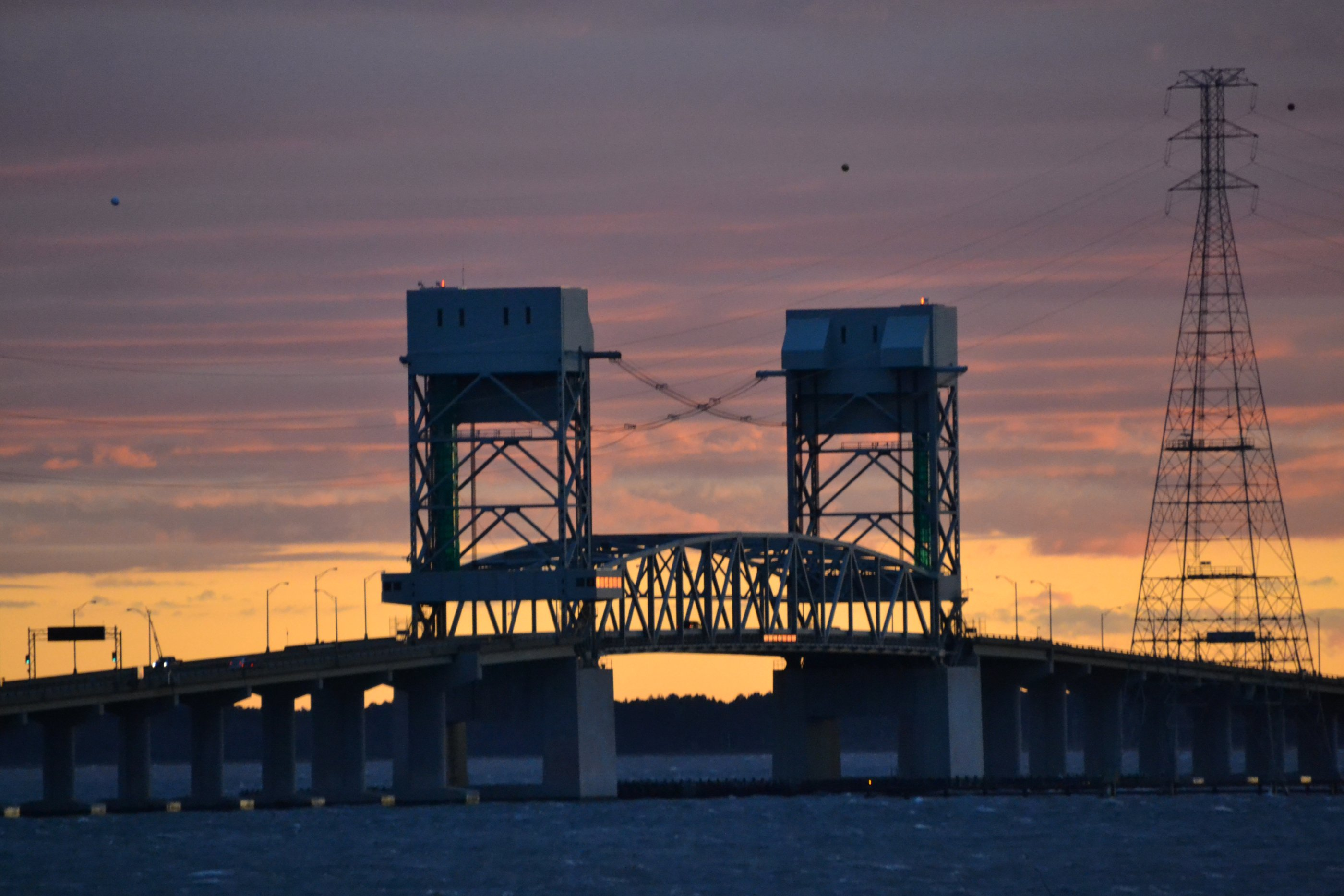 The central portion of the James River Bridge, with vertical-lift span, at sunset.